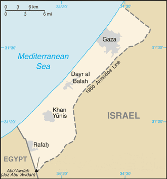 Modified version of previous file, copied from the CIA World Factbook from this page: *